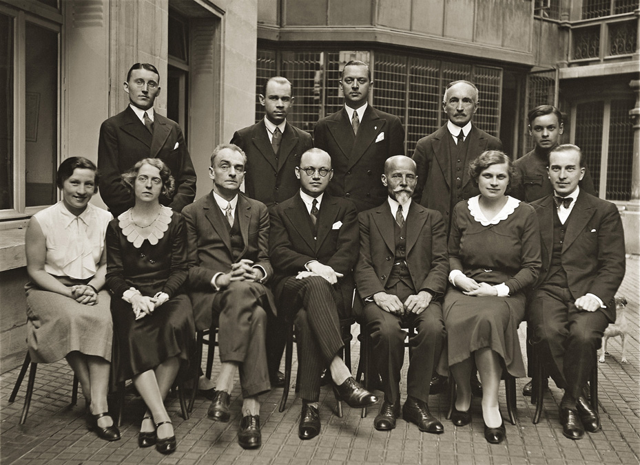 Representation of Lithuania in Paris, 1930. From Left siting - Vaitaitė, Defo, O. Milašius, P. Klimas, K. Dobkevičius; standing - J. Baltrušaitis (jr.), B. Blaveščiūnas.